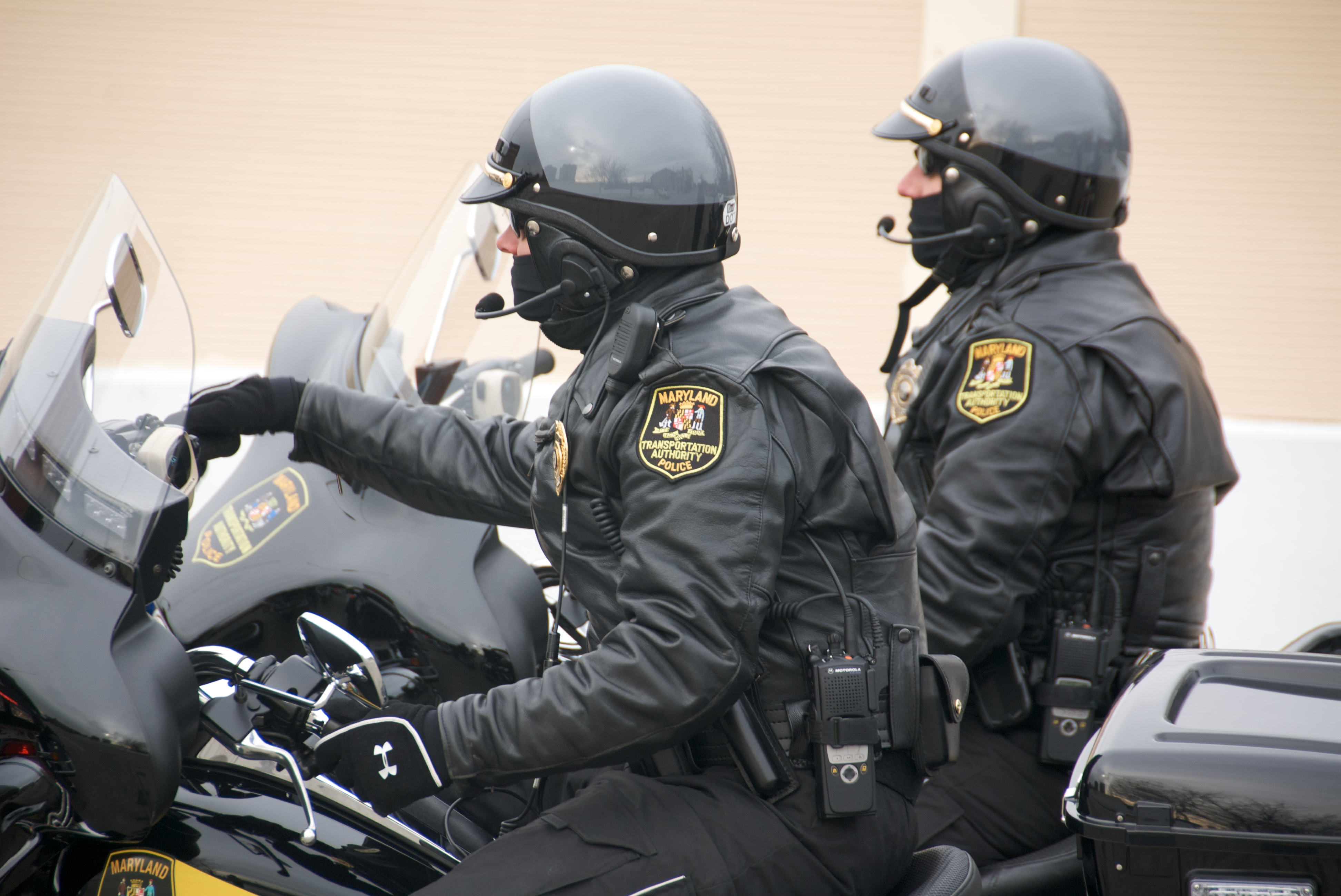 Officers gearing up for Barrack Obama's motorcade.